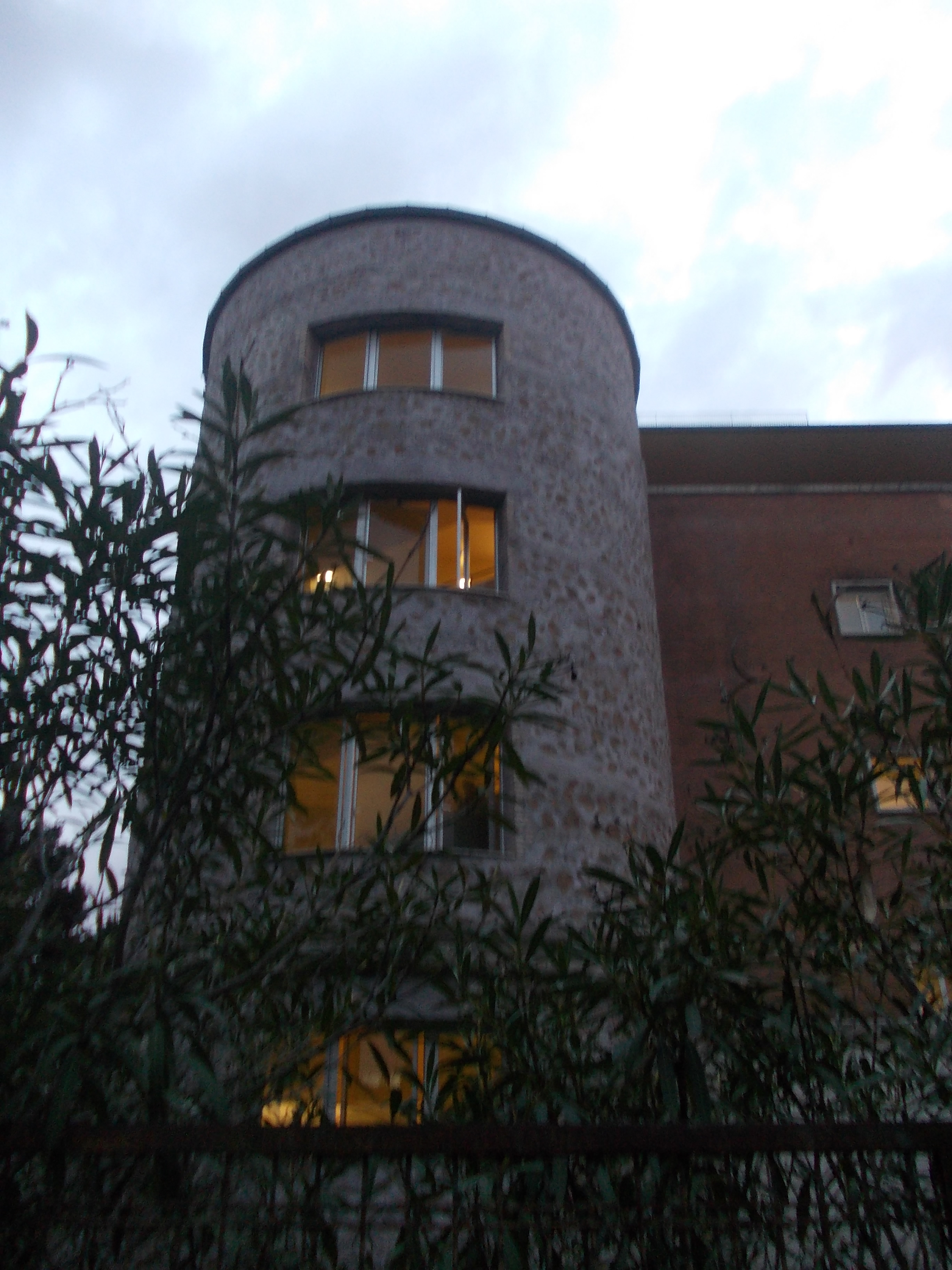 Sant'Eugenio Hospital in Rome. Particular from the old building.